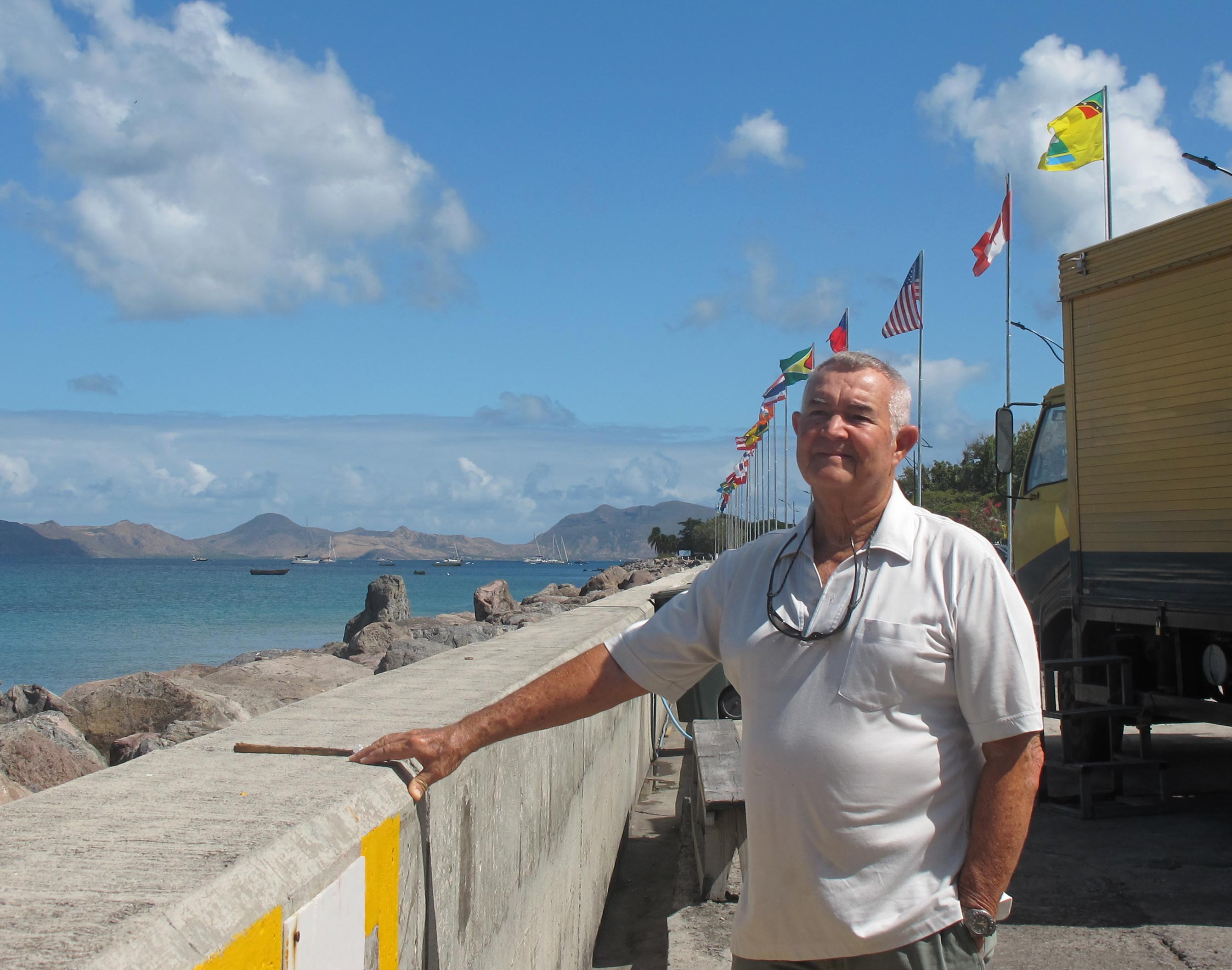 Captain Arthur Anslyn in 2014, on the waterfront next to the port, in Charlestown, the capital of Nevis, West Indies. The Nevis flag is flying in the upper left of the image.